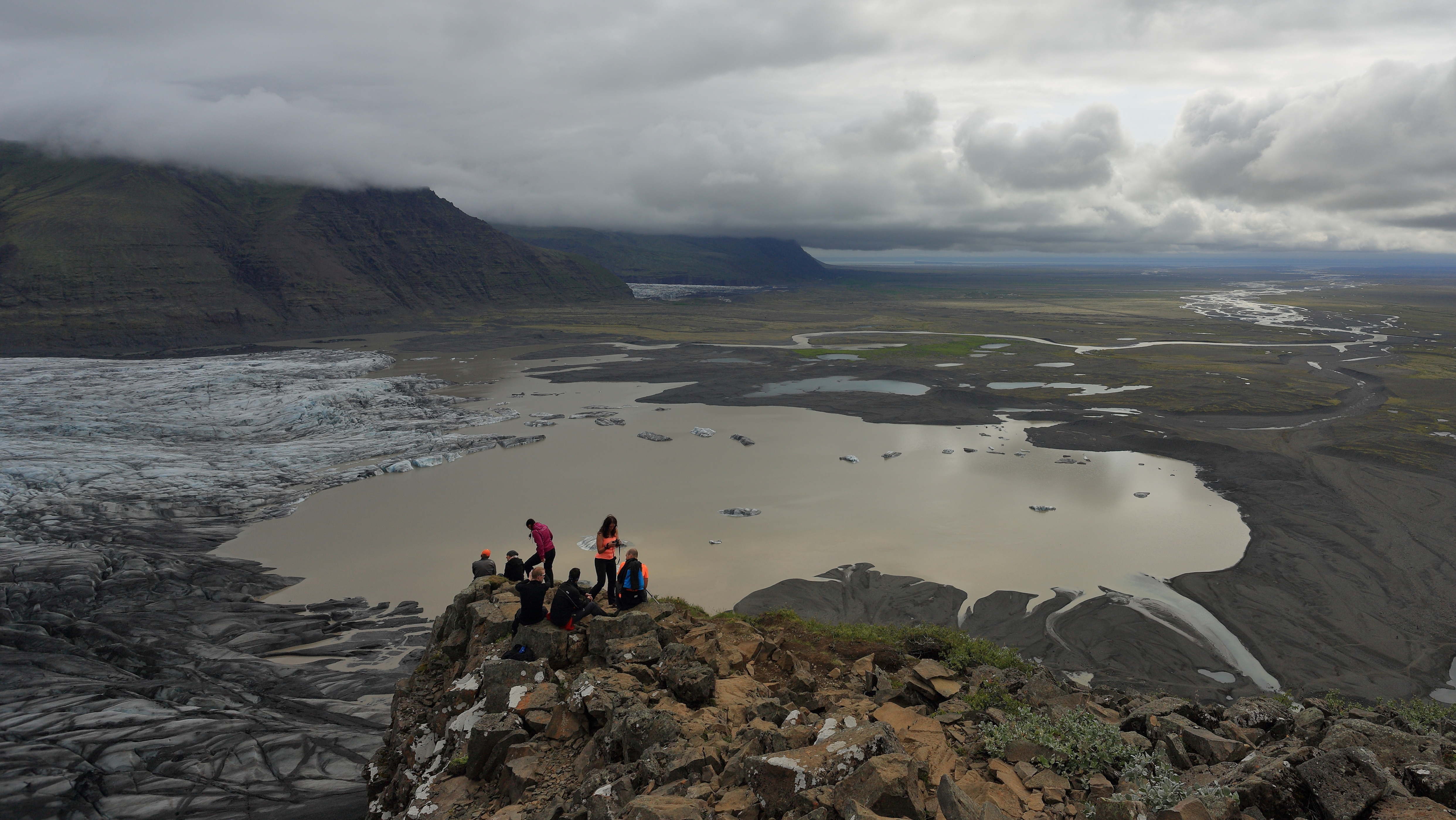 The Skaftafellsheiði plateau, Vatnajökull National Park, Iceland, provides a picturesque view of Skaftafellsjökull, a glacier terminus of the Vatnajökull, the adjacent glacier lake below, and River Skeiðará originating from it.